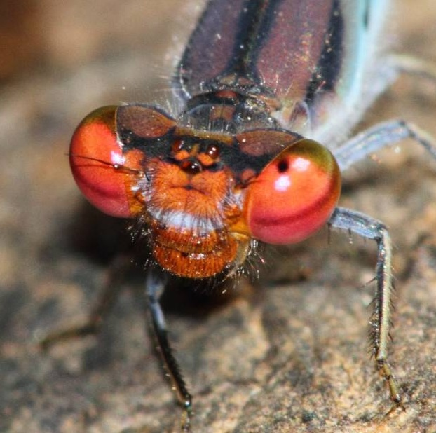 Pseudagrion sublacteum (Cherry-eye sprite); detail of head.